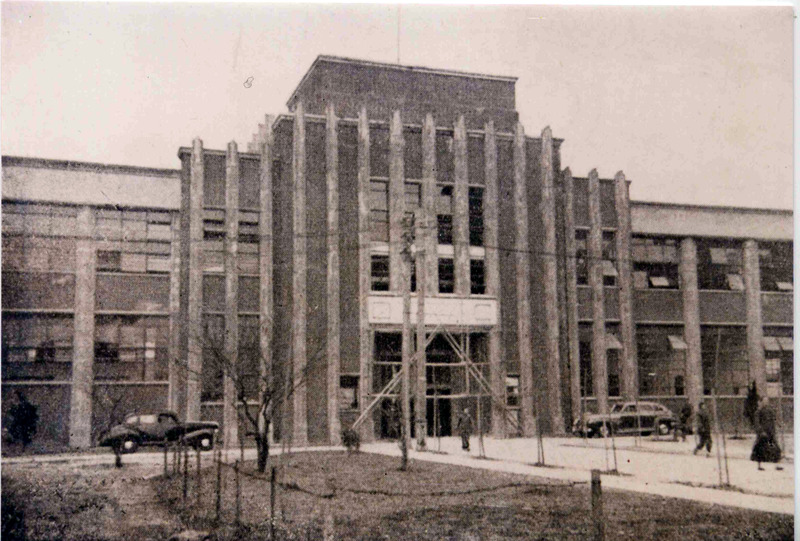 Gongchengguan of Jiaotong University in 1930, Shanghai China.